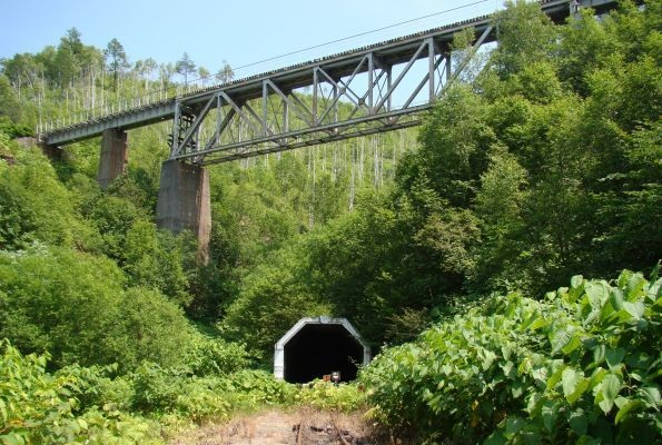 Мост 74 км (Холмск, лето)